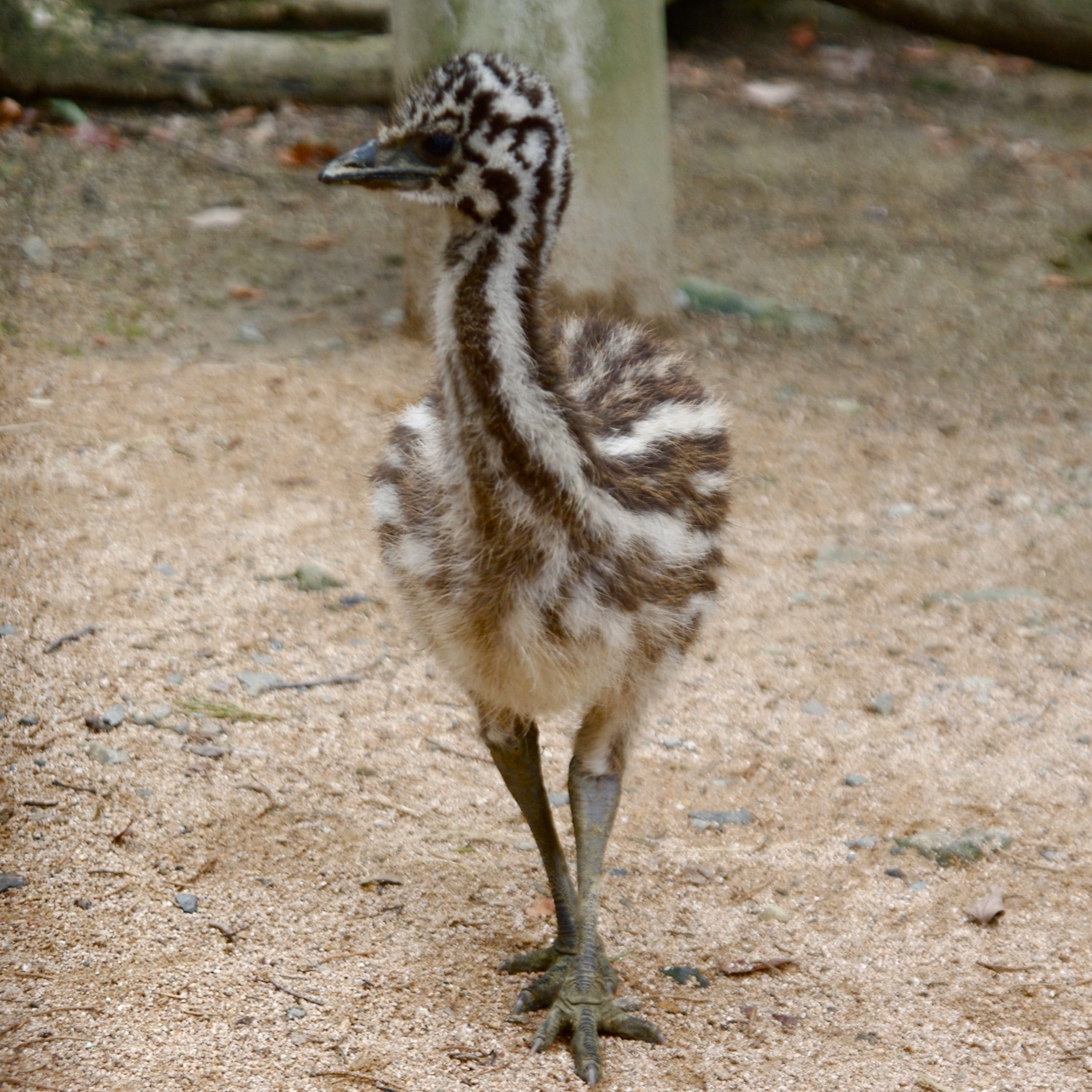 A baby Emu at Satsukiyama Zoo, Osaka, Japan.